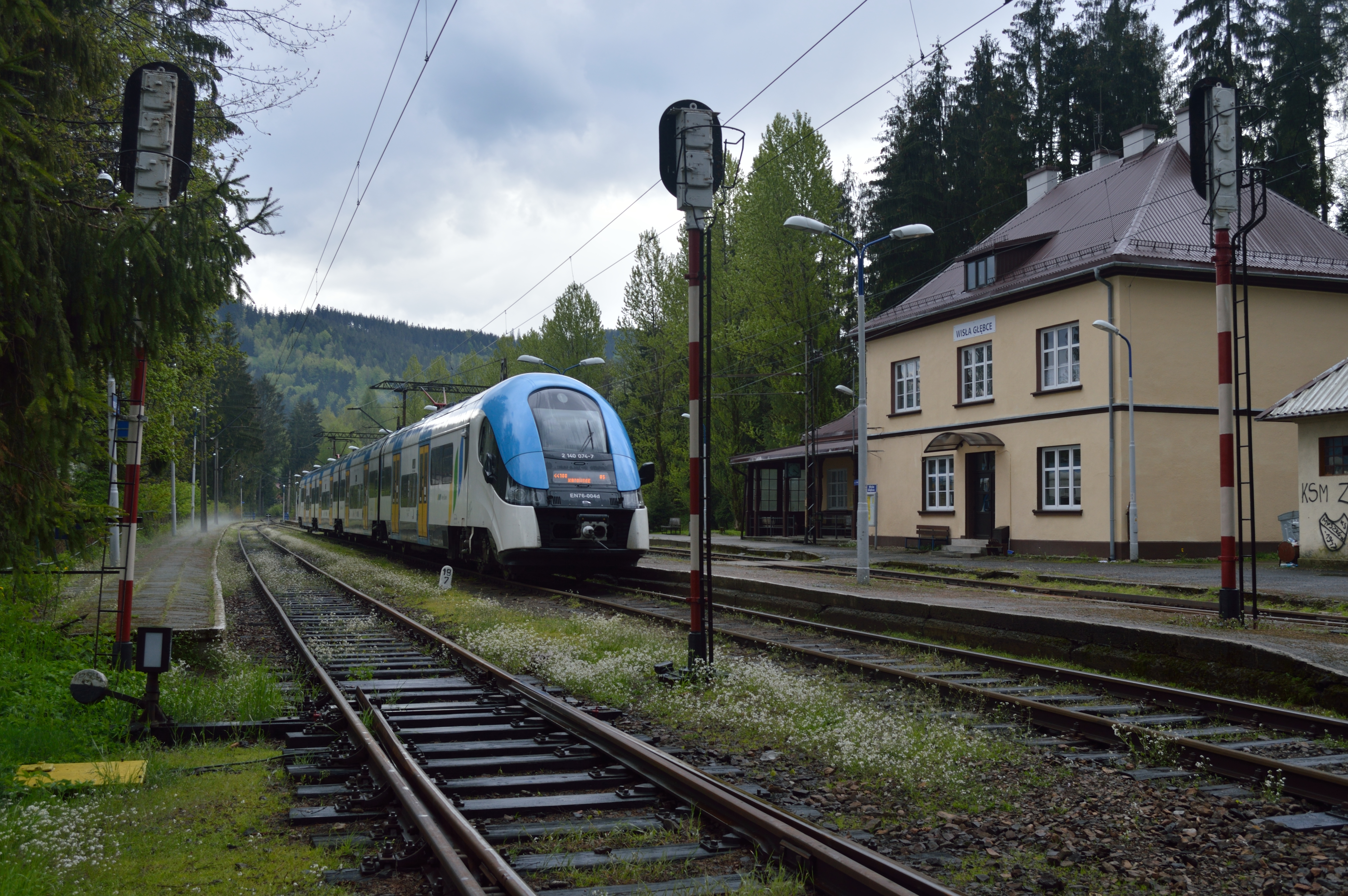 End of branch in southern Poland which serves an area popular for hiking and winter sports. Seen on wet afternoon of 10 May 2016, Koleje Śląskie EMU EN76-004 waits departure on train KS44108, 17:01 Wisła Głębce to Katowice.